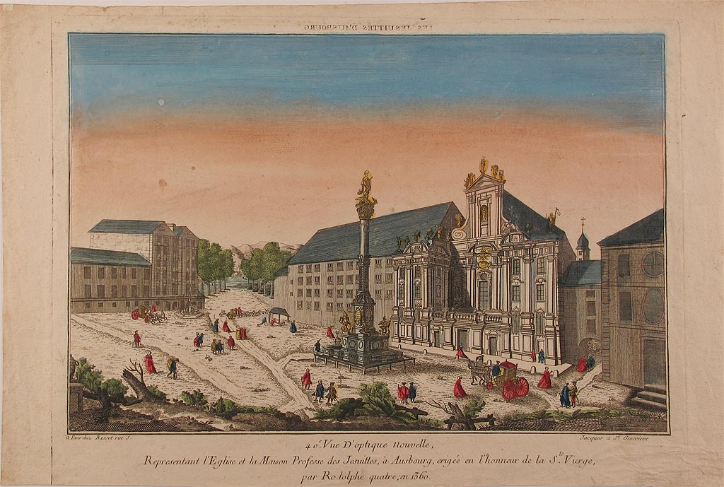 L'Eglise et la Maison Professe des Jesuittes, à Ausbourg, erigée en l'honneur de la Ste. Vierge ... (wrong: this is the "Kirche am Hof" in Vienna). Perspective view (peep show card), colored copperplate print, editior: Basset, Paris, 18th century. 28 x 41 cm